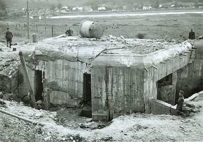 German-Soviet Union Border - San River